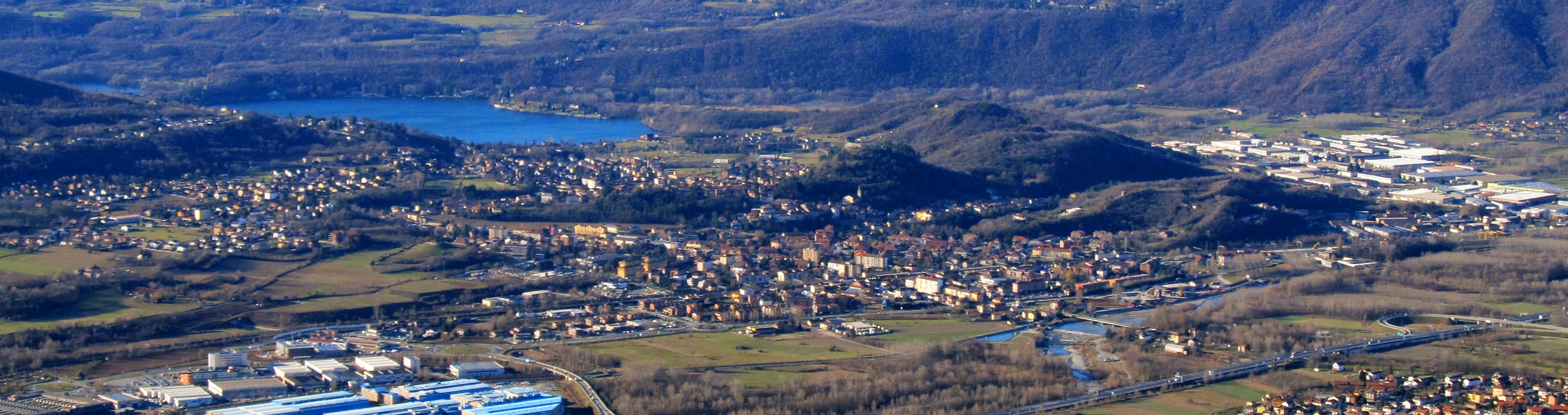 (TO, Italy) seen from Mount Musinè; on the right the industrial area, in the centre the oldest part of the town with the castle, on the left the lake Lago Grande